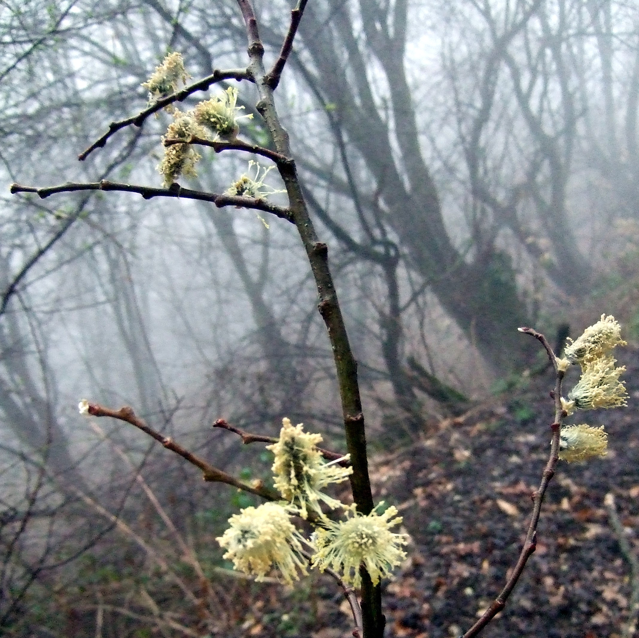 The first tree blossom in Dilijan mountains at the beginning of spring